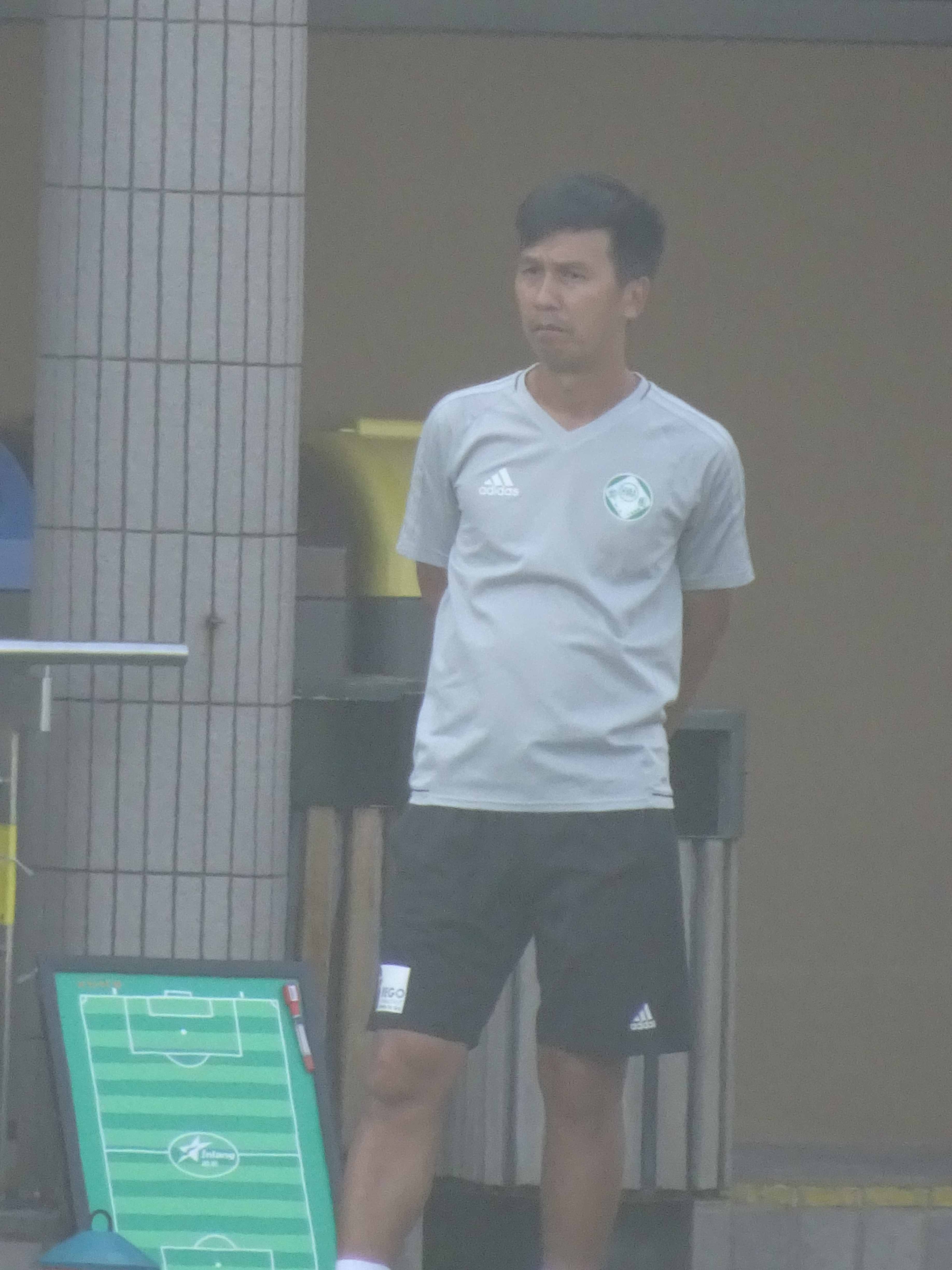 Pau Ka Yiu (30 Sept 2018, Hong Kong First Division, Happy Valley vs Resources Capital, Po Kong Village Road Park pitch#1)